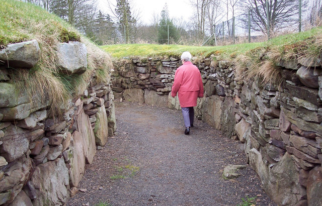 Tealing Souterrain. Souterrains were cellars, built partly or wholly underground, alongside or attached to timber buildings above ground. They are also know as 'earth houses' although they were used primarily for storage rather than dwellings. Similar structures have been found in Brittany, Cornwall and Ireland.